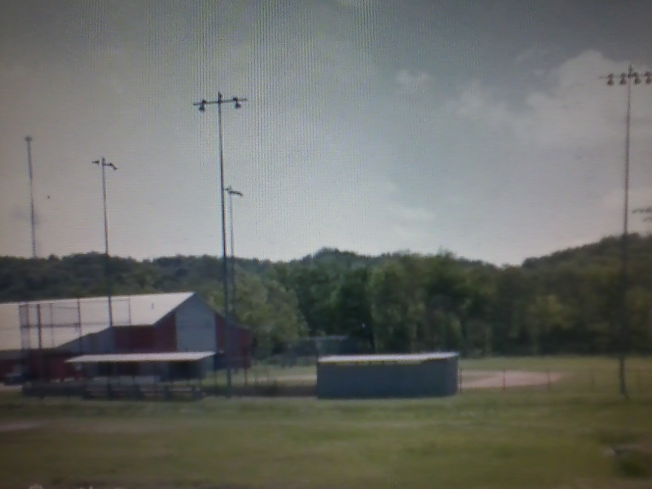 Ball Field Stringtown OK.